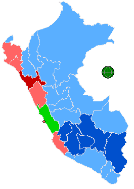 Geographic distribution of 1st round votes in Peru's 2006 presidential election. Based on and adapted from Image:Elecciones Presidenciales 2006 (Perú, 1ª vuelta).png and Image:Segunda Elección Presidencial 2006 (Perú).png, quantitative data available at [1].